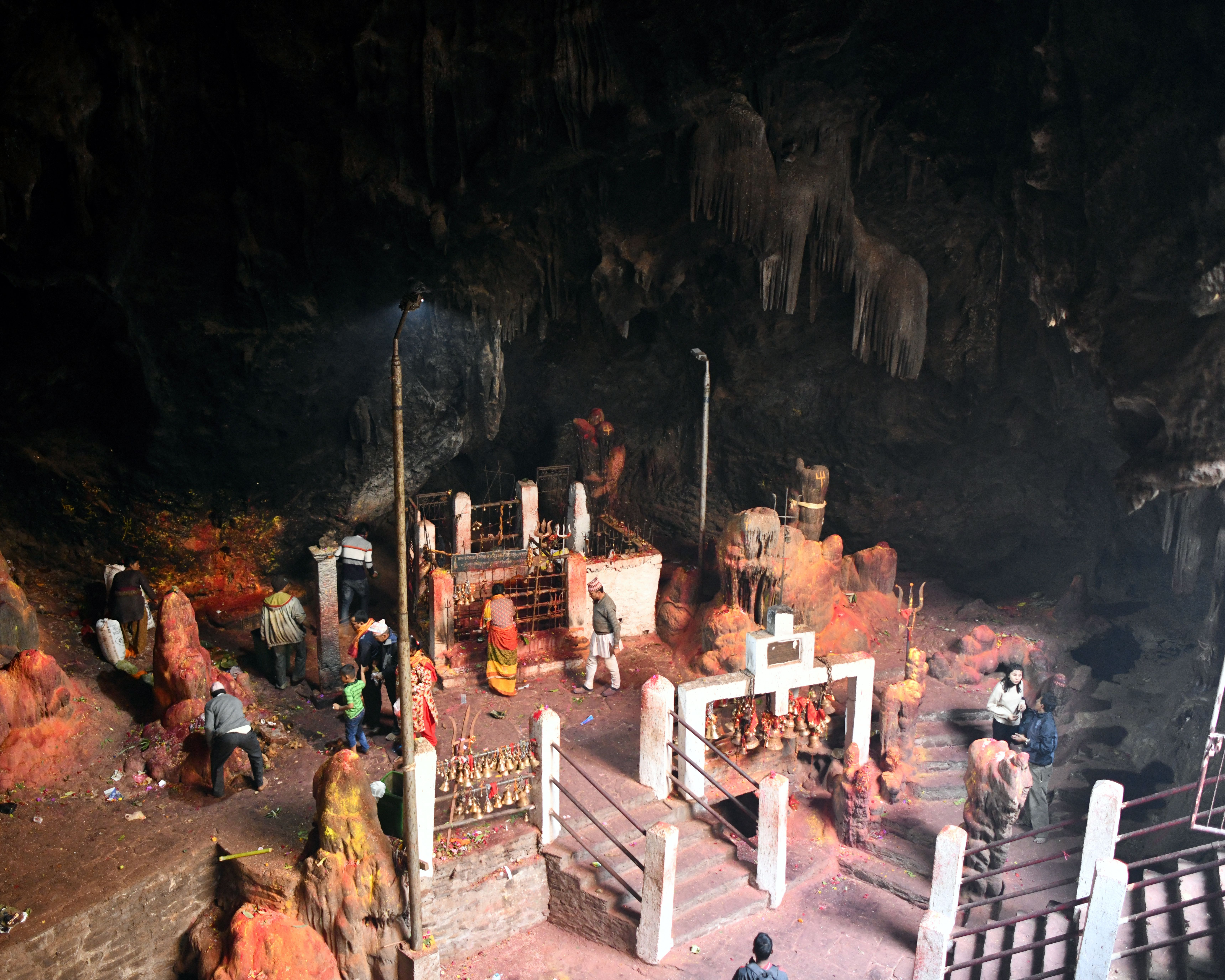 Upper Maratika / Halesi cave. Cave of Immortality བོད་ཡིག: འཆི་མེད་ཚེའི་རིག་འཛིན་གྲབ་པའི་སྒྲུབ་ཕུག